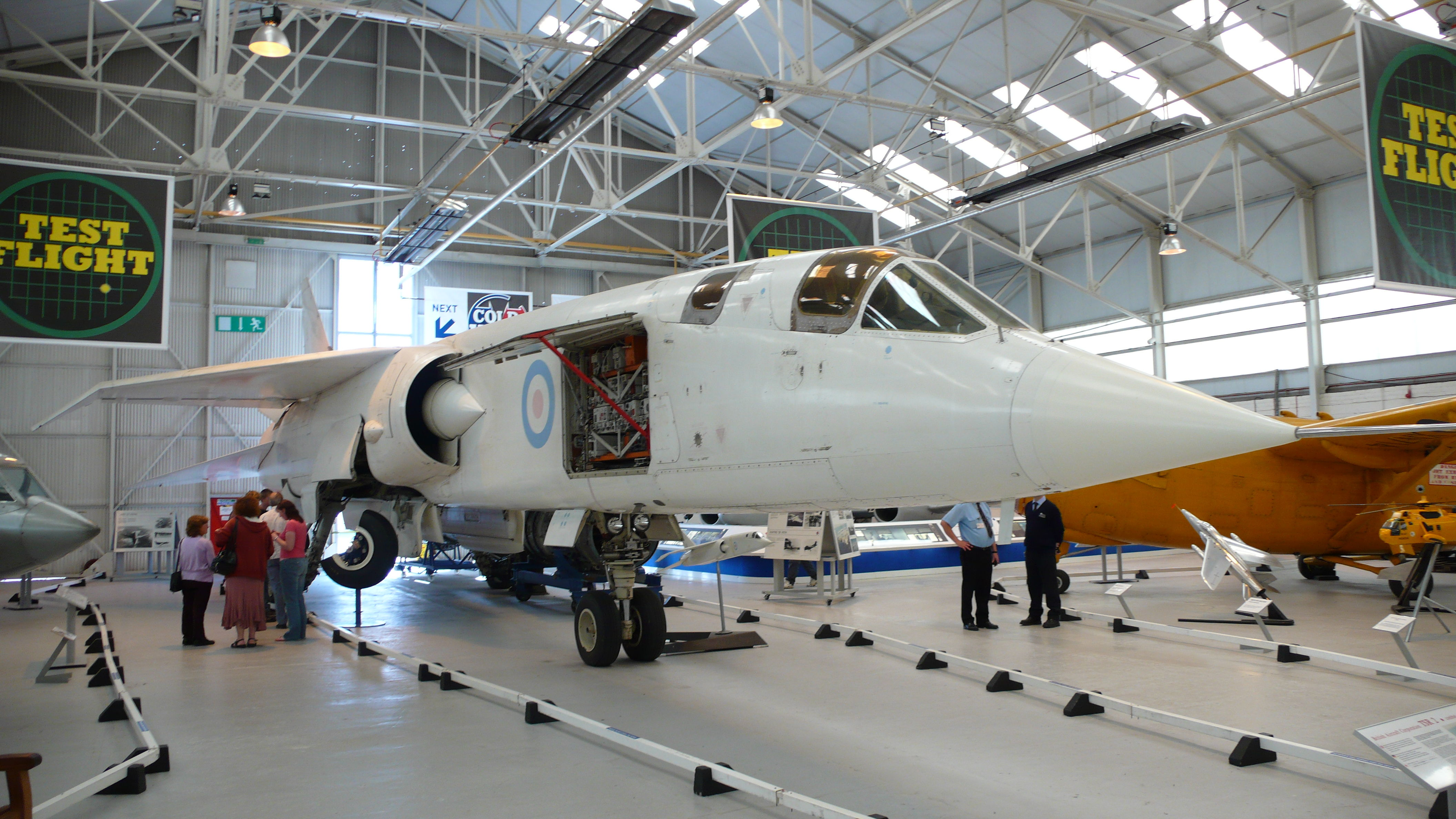 TSR-2 airframe at the RAF Museum, Cosford, England.